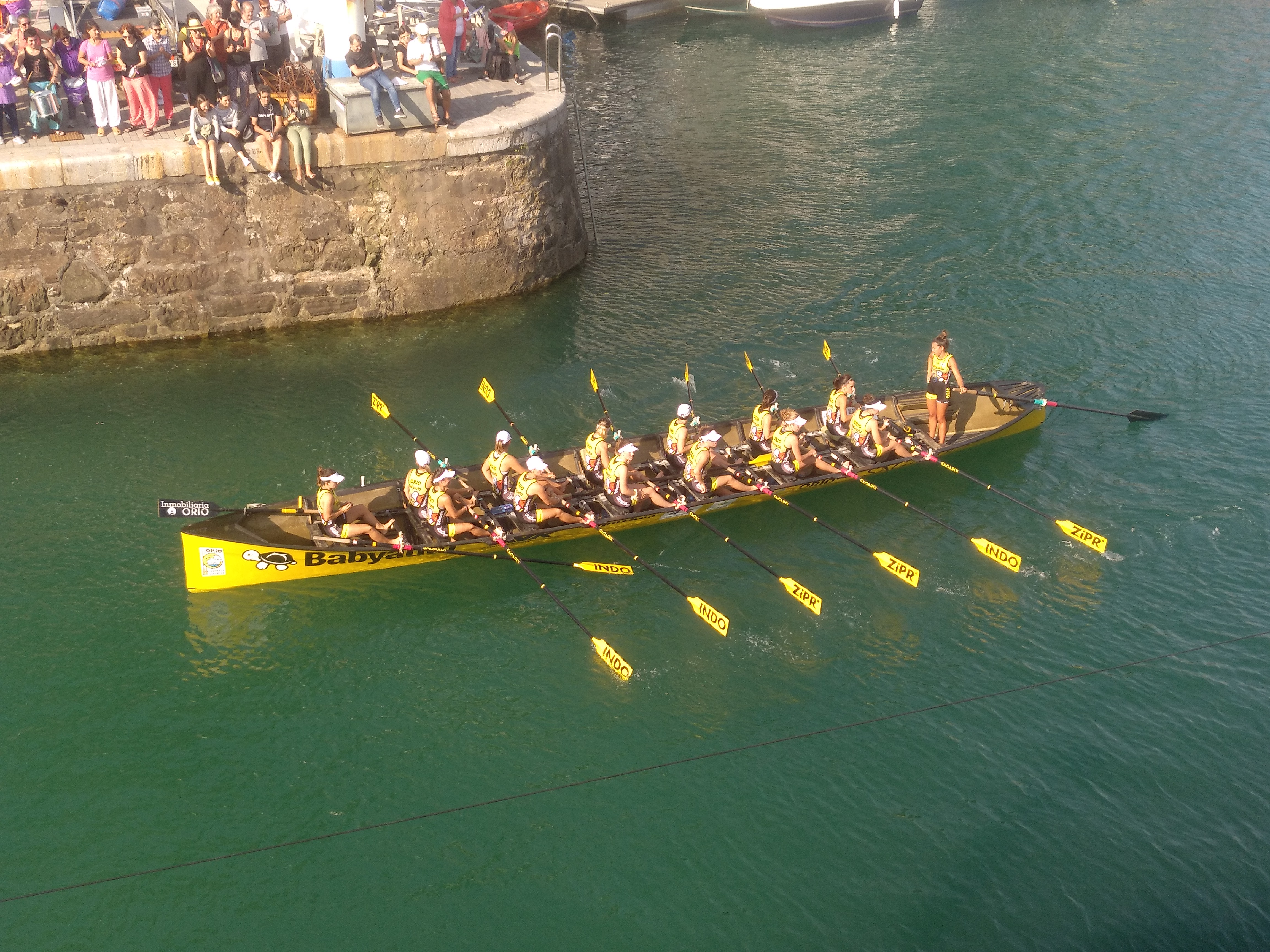 Orio Arraunketa Elkartea, women, Flag of La Concha, 2018